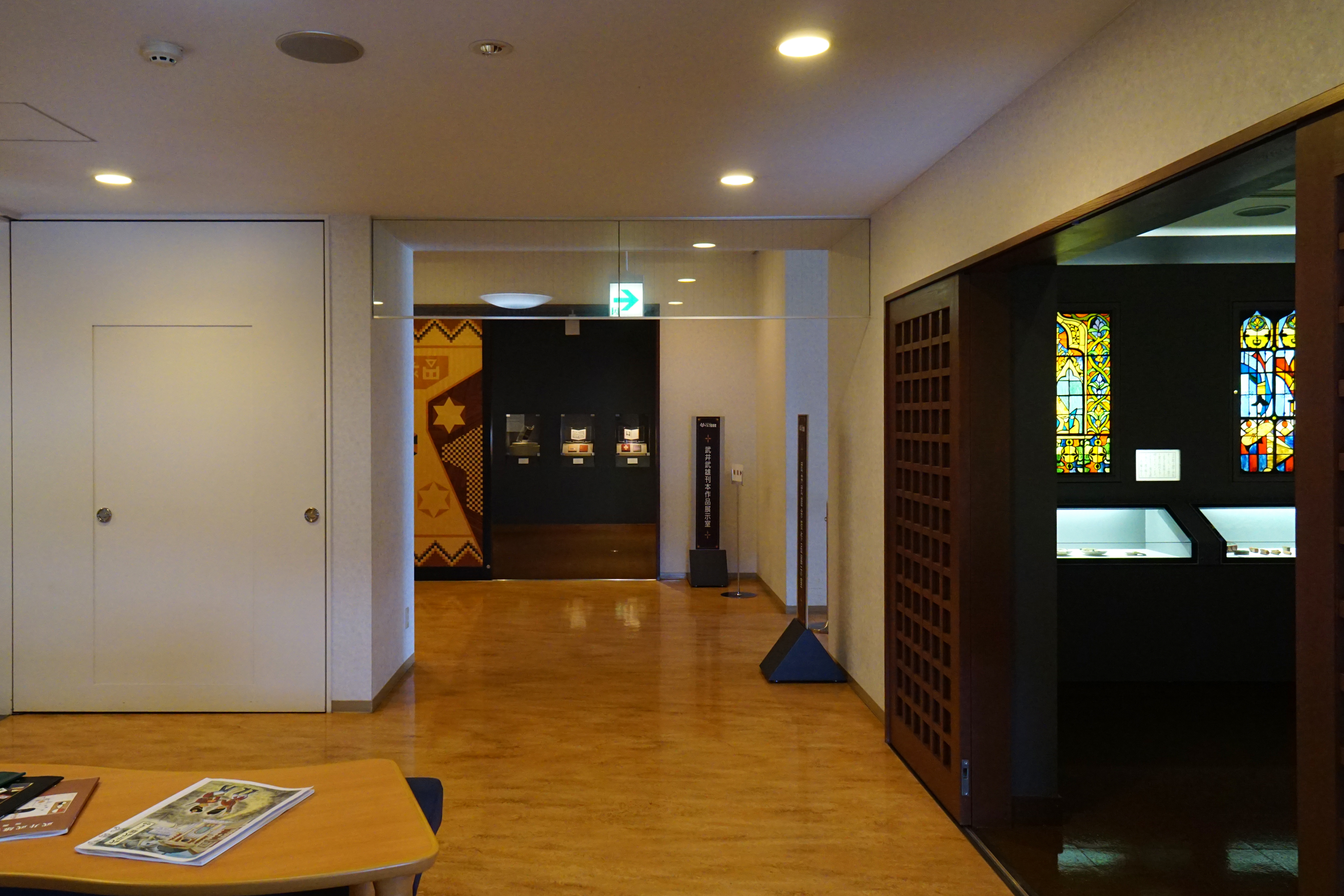 ILF Douga Museum of Art in Okaya, Nagano prefecture, Japan